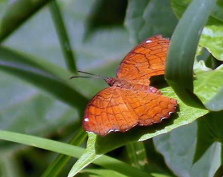 Angled Castor Ariadne ariadne. Botanical Gardens, Kolkata, West Bengal, India.